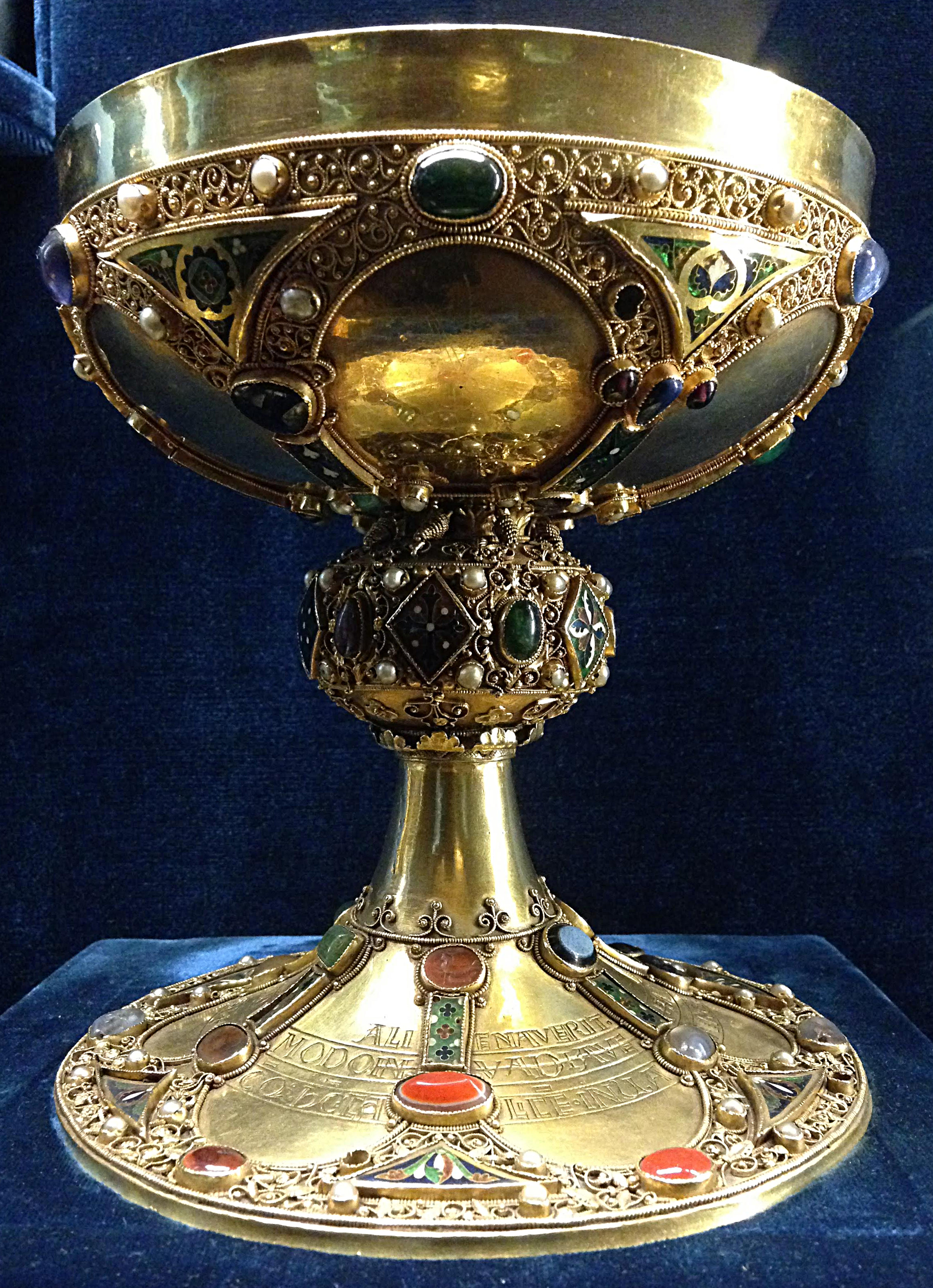 12th century French coronation chalice of gold, enamel, filigree and granulation, pearls and precious stones; said to have been made from the gold of a vase of Clovis broken by one of his soldiers; used by French kings at the end of coronation ceremonies. Provenance: Cathedral of Notre Dame, Reims, France.